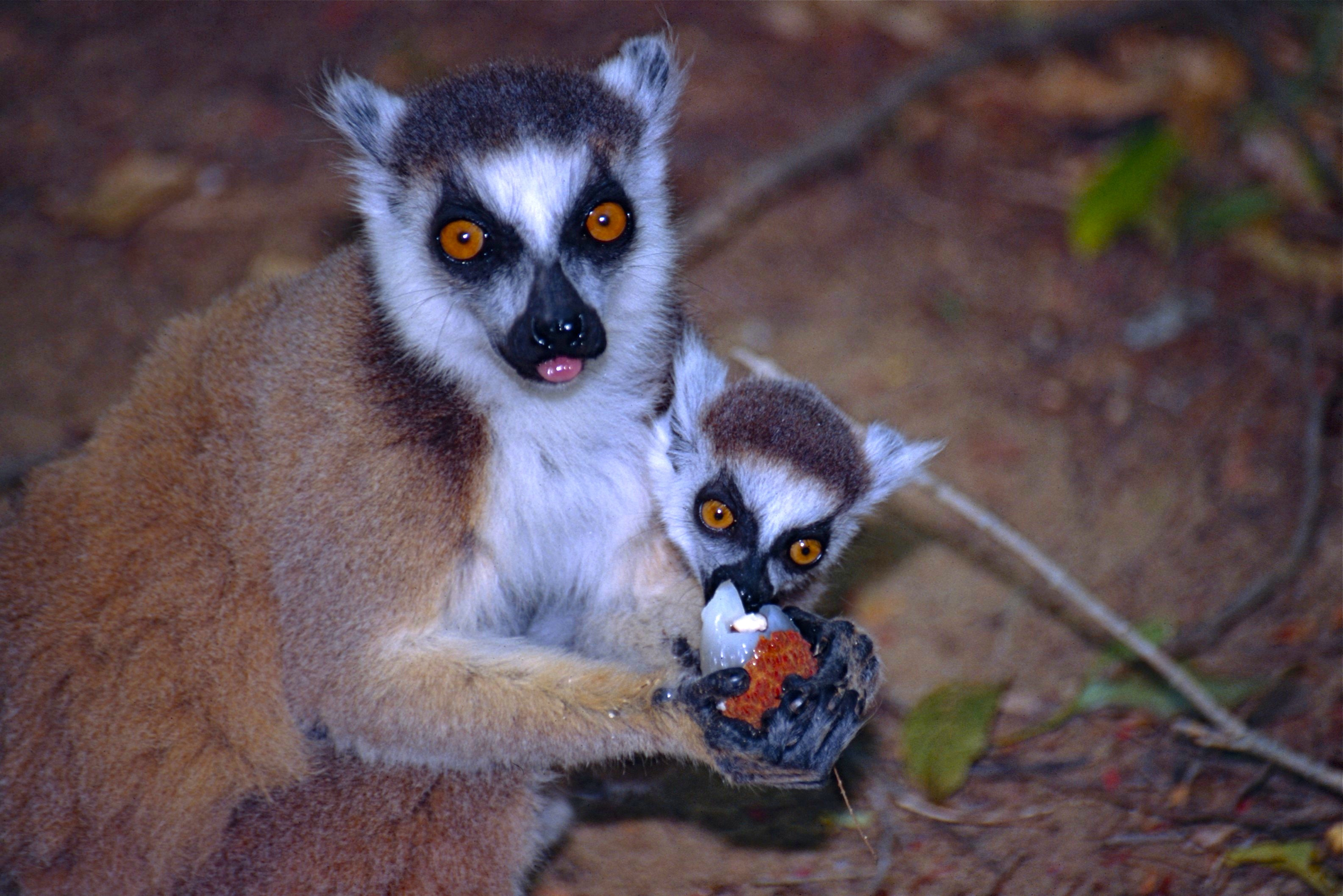 Réserve de Berenty, Amboasary Sud, MADAGASCAR Scanned Slide from 1998